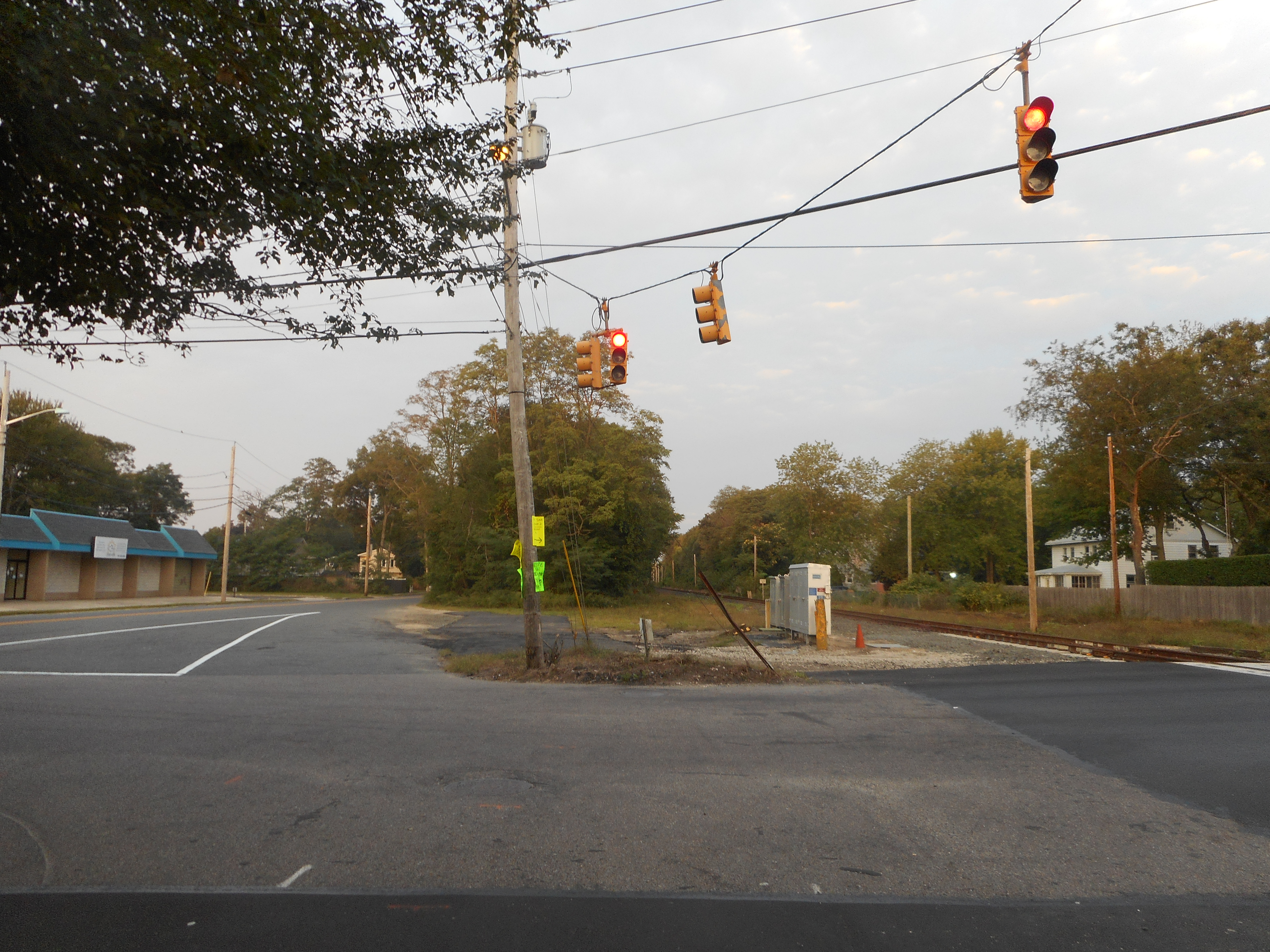 Site of the vicinity of the former Holbrook LIRR station in Holbrook, New York. Further details and a possible rename to come later.